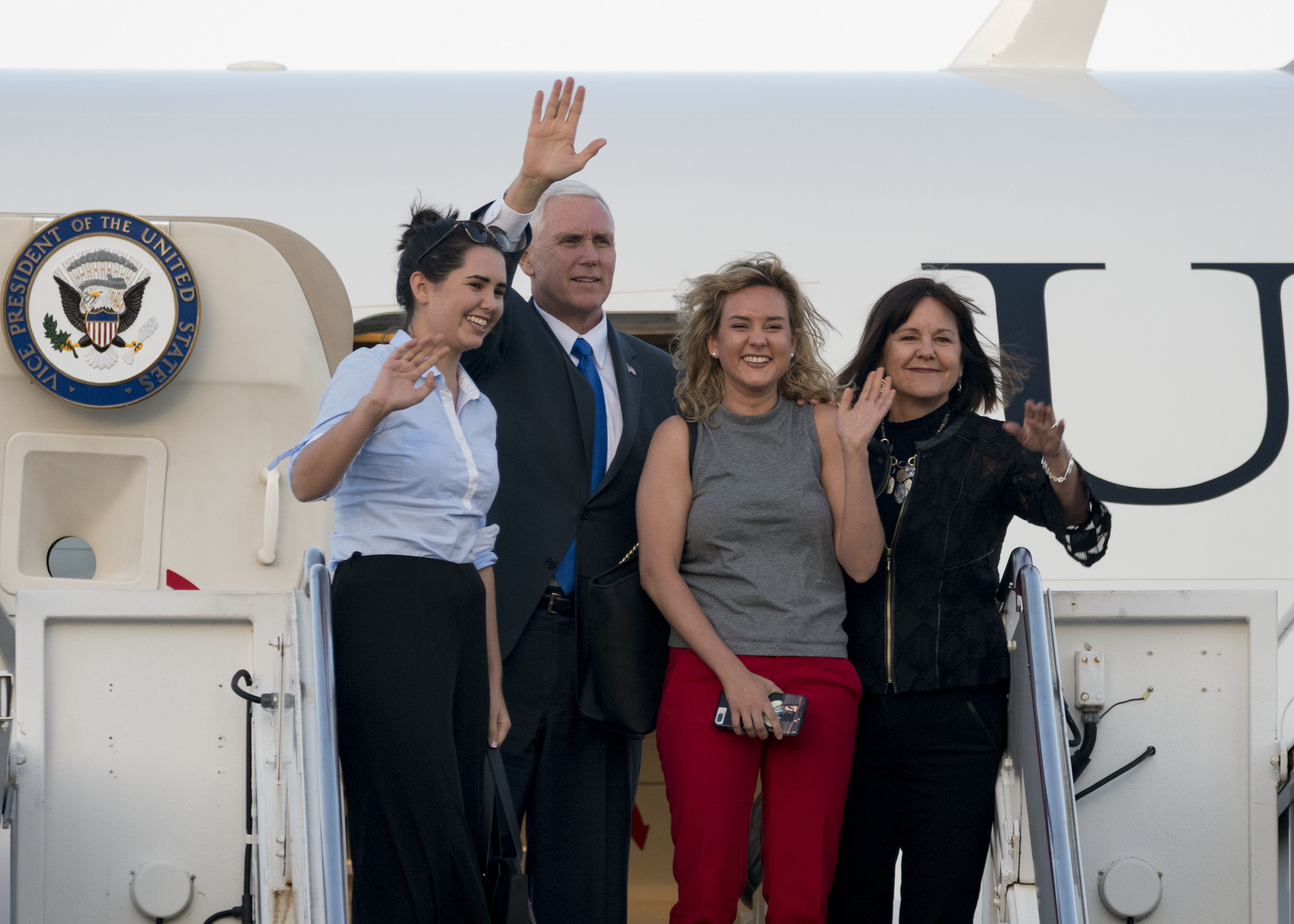 170419-N-JD834-047 ATSUGI, Japan (April 19,2017) Vice President Mike Pence and his family wave as they depart Naval Air Facility Atsugi, Japan via Air Force Two April 19, bringing to a close the Vice President’s first official visit to Japan since taking office. During his trip, the Vice President emphasized President Trump's continued commitment to U.S. alliances and partnerships in the Asia-Pacific region, highlighted the Administration's economic agenda, and underscored America's support for our troops at home and abroad. (U.S. Navy Photo by Mass Communication Specialist 2nd Class Michael Doan/Released)